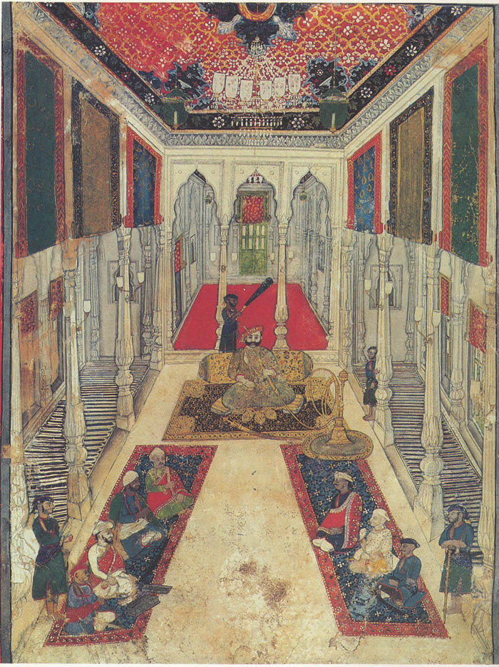 Durbar hall, unidentified, Maratha school, c.1820 Source: A Second Paradise: Indian Courtly Life 1590-1947, by Naveen Patnaik (New York: Metropolitan Museum, 1985), p. 113; scan by FWP, Sept. 2001 "Durbar Hall. Unidentified Maratha school; c. 1820; 31.5 x 24.5 cm. Private collection." "With the weakening of Mughal power, the Marathas spread from their homelands in the Deccan and established principalities in many parts of northern India. Wearing a characteristic Maratha turban and smoking his huqqa (hookah), this royal personage gives audience in the perspective of a splendid hall of whitewashed stone enriched with the blue and white striped daris (dhurries), carpets, and imported glass oil lamps." (A Second Paradise, p. 184)